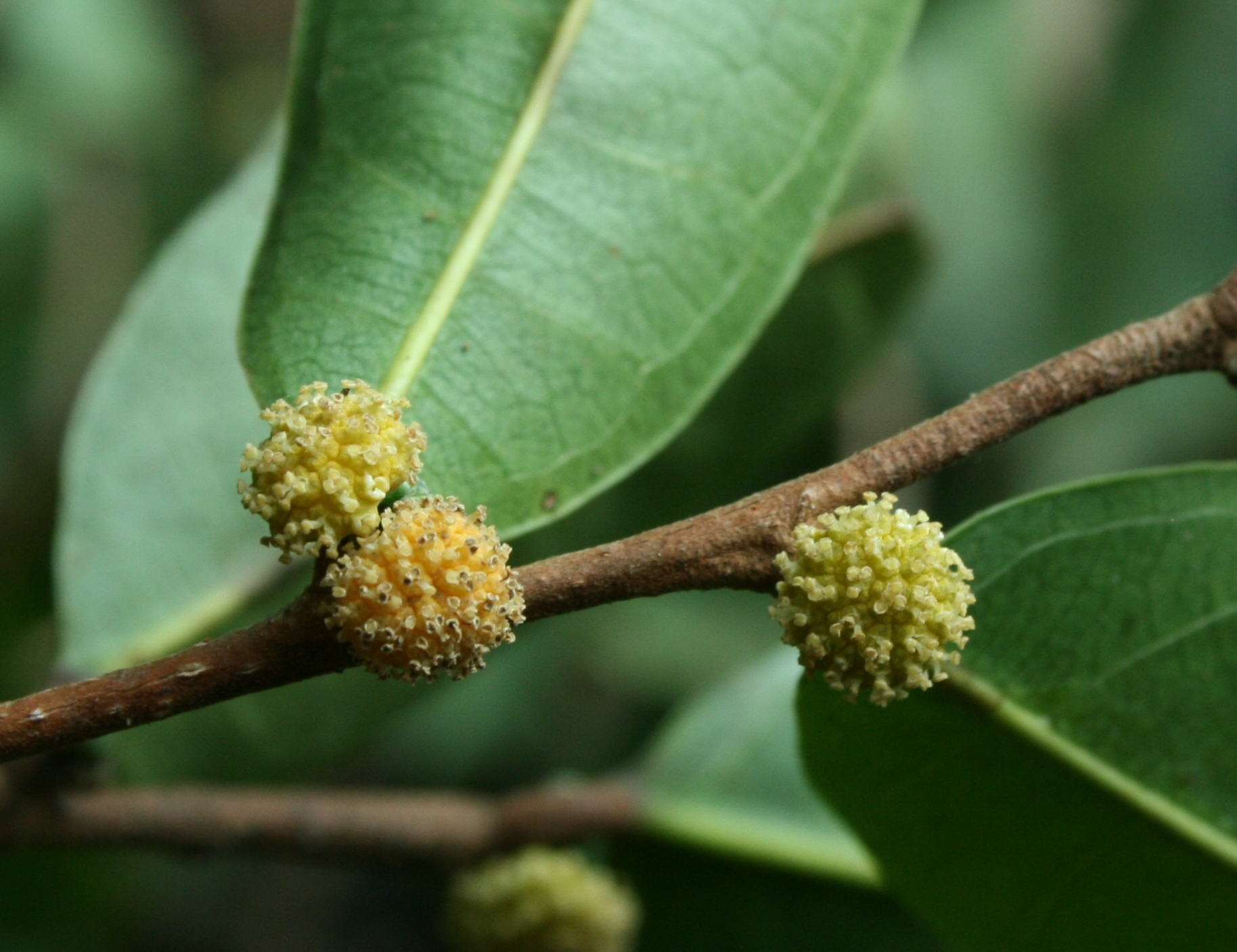 Inflorescence of Helicostylis elegans (Moraceae), Rio Caura, Venezuela